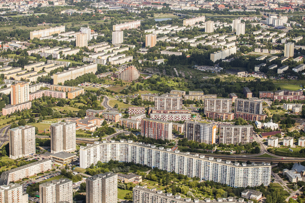 Os. Orła Białego, Stare Żegrze, Armii Krajowej, Bohaterów II Wojny Światowej. Widoczne ulice: Żegrze, Inflancka, Pawia, Redarowska.